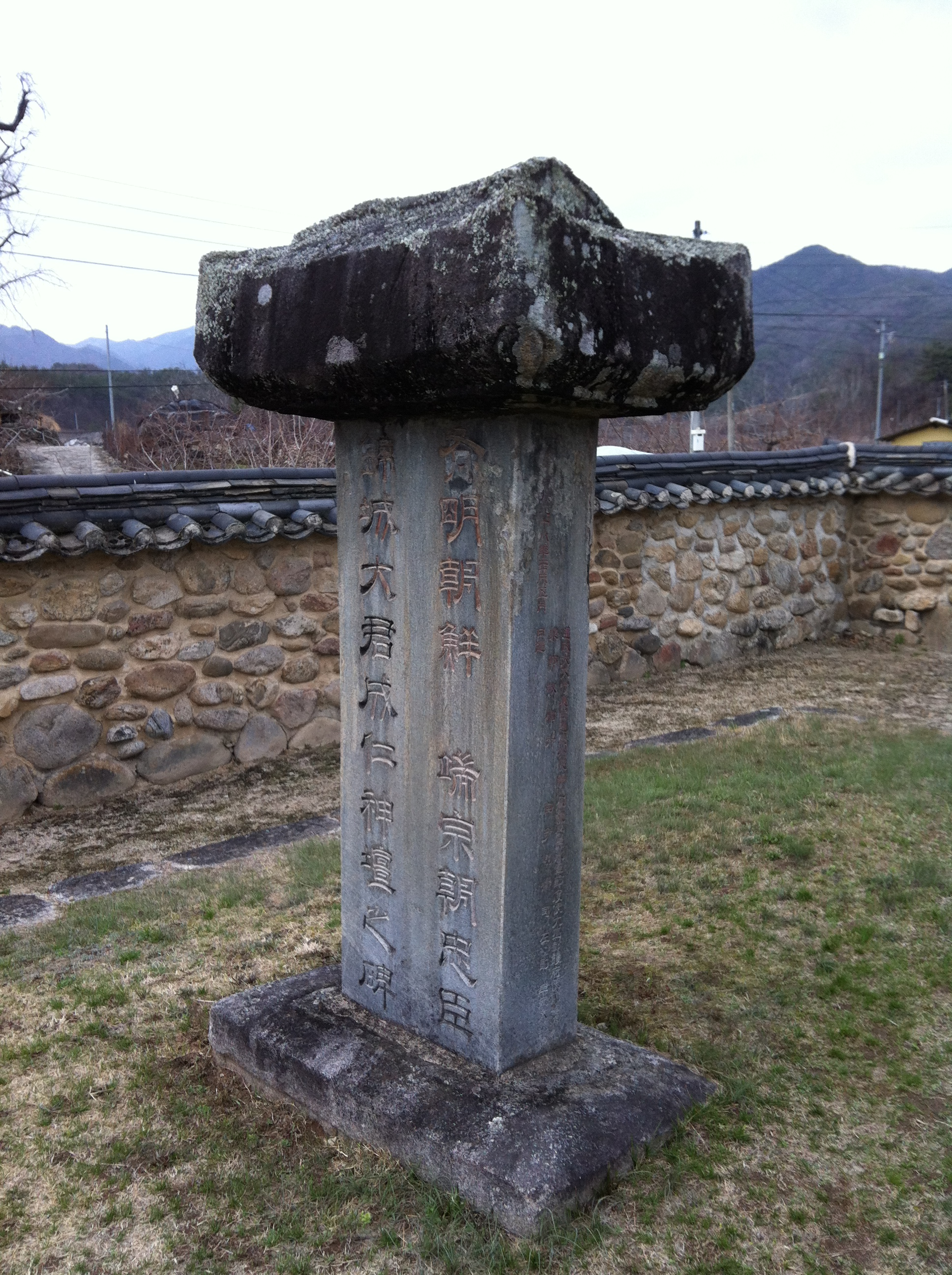 Stale for Gumseong Daegun, sixth son of Sejong the Great. He was excuted by Sejo who was his elder brother, because prepare the movement of get back the throne for Danjong, his nephew.